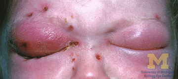 Photograph showing orbital cellulitis which is a bacterial infection of the periocular tissues.